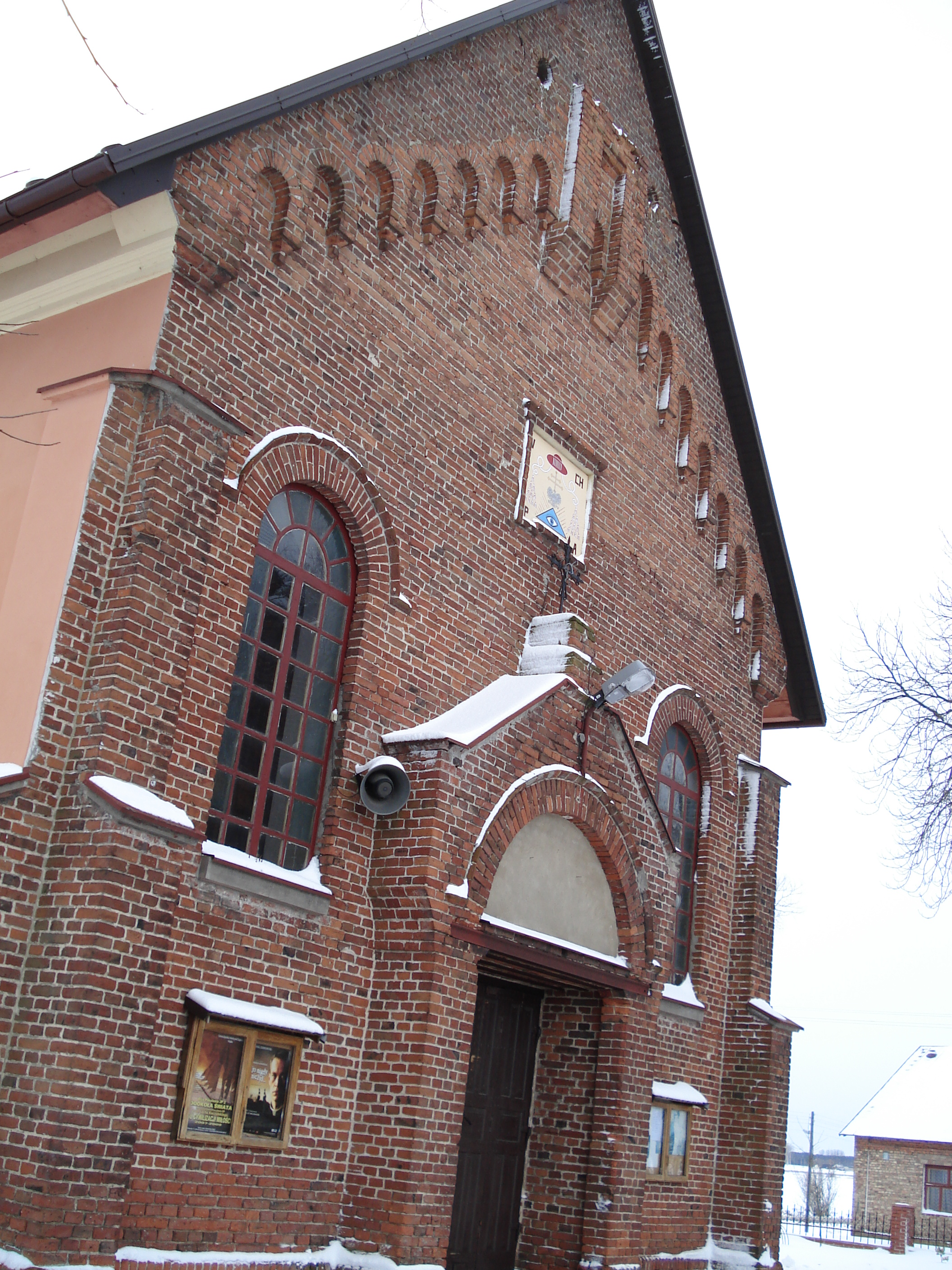 Catolical church of Leźnica Wielka (Poland)